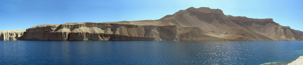 Band-e-amir is a series of deep blue lakes nestled amidst limestone canyons. This is Afghanistan’s Grand Canyon, truly a sight inspiring of awe. Weather is worth traveling through Taliban territory to get here is entirely another question. More from Afghanistan on my site contained in these posts. CC